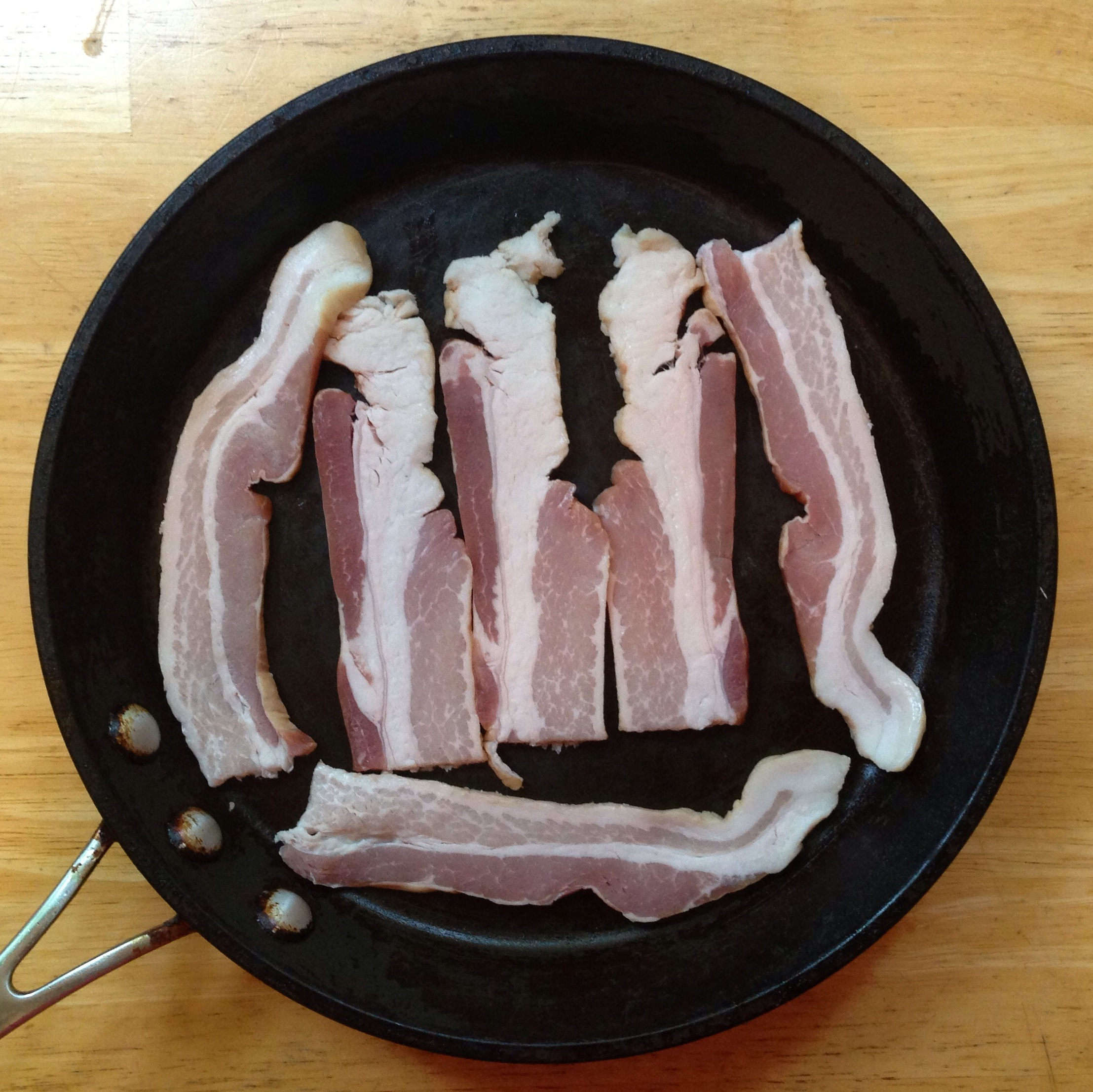 Bacon in a pan